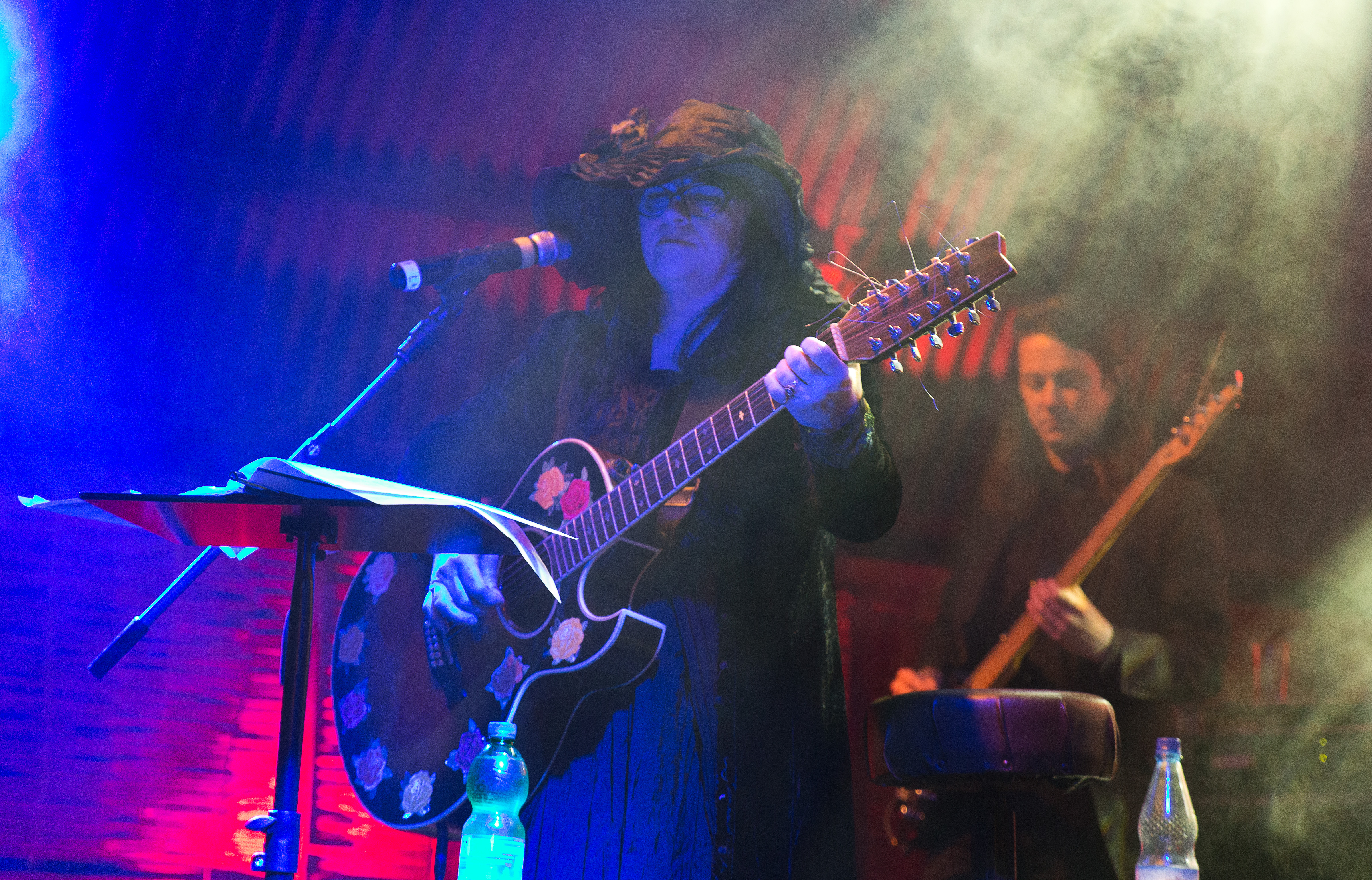 The Scottish musician Rose McDowall and band at the Nocturnal Culture Night 10 2015 in Deutzen/Germany.